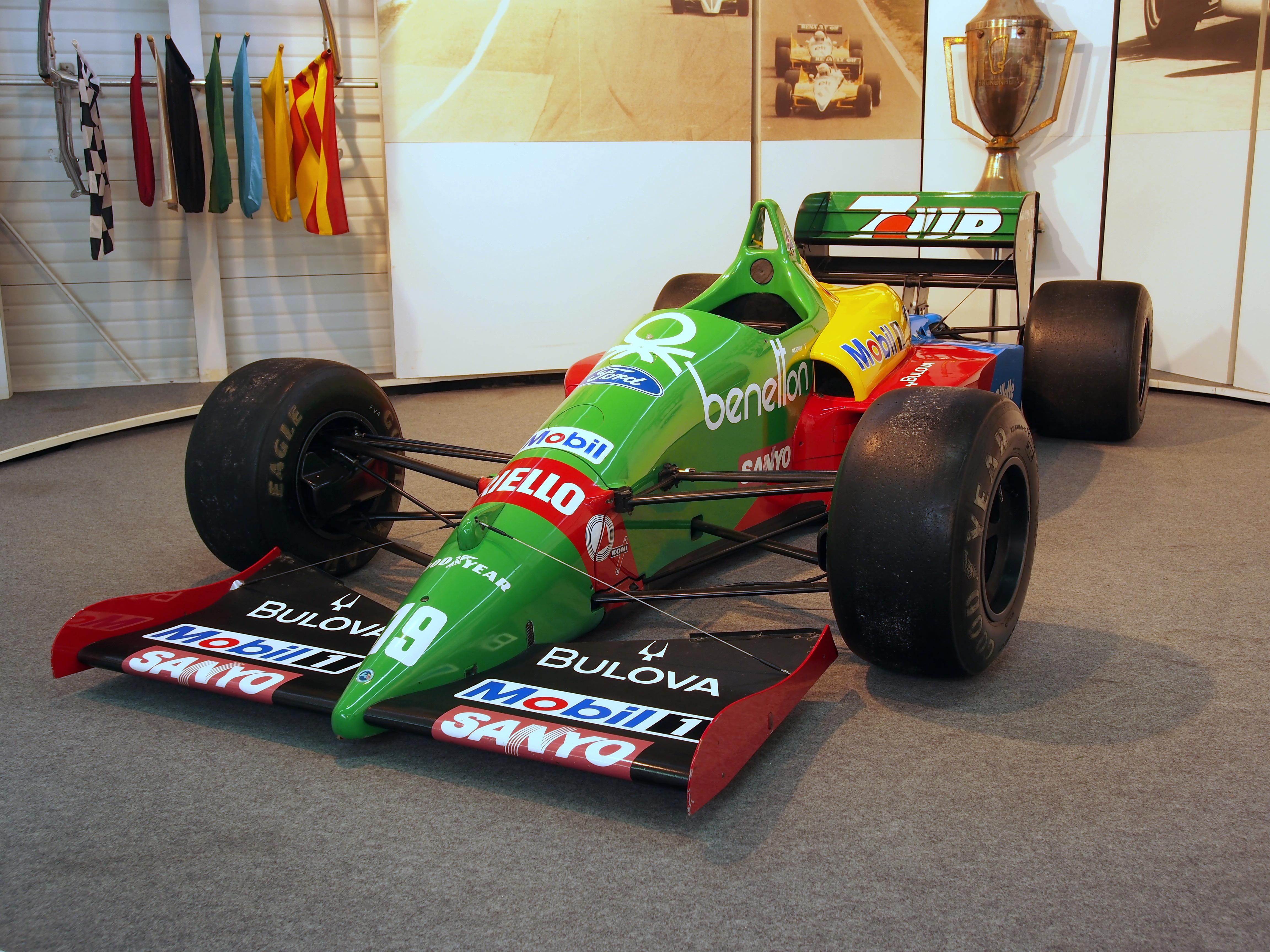 Photographed at the Motor-Sport-Museum am Hockenheimring, Germany.